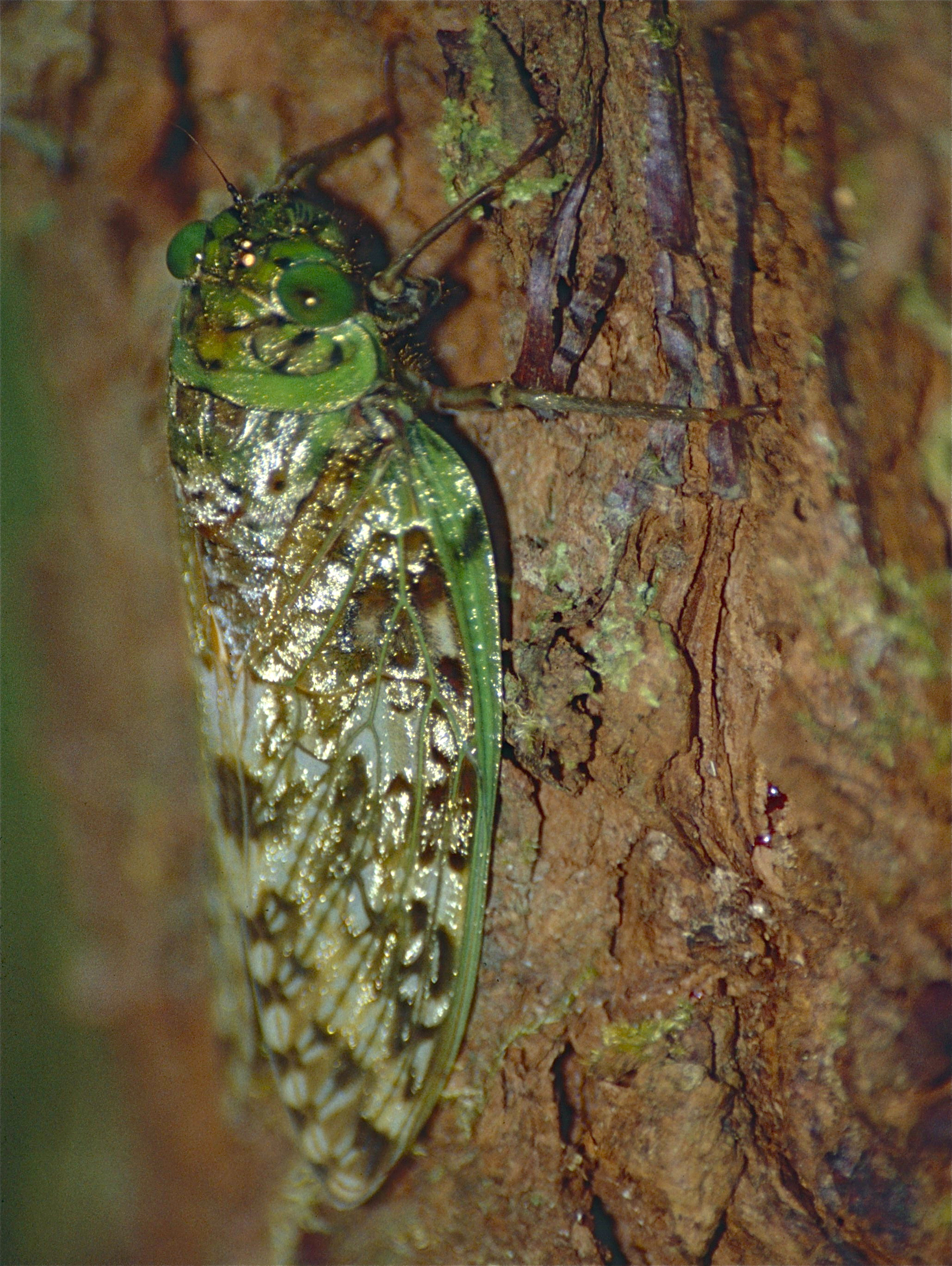 Mantadia Reserve, Perinet, MADAGASCAR Scanned Slide from 1998